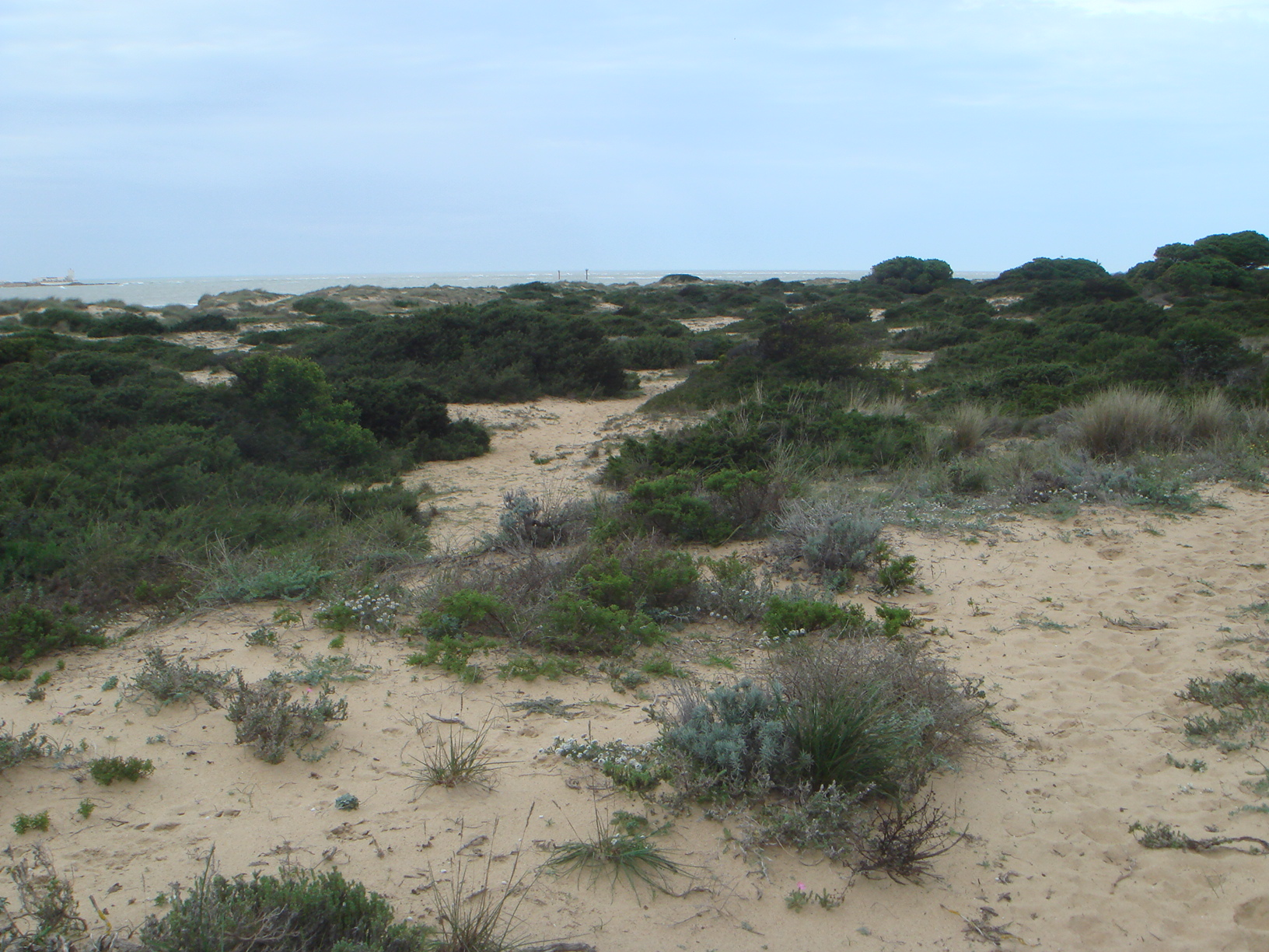 (Juniperus phoenicea) province of Cádiz, Spain.